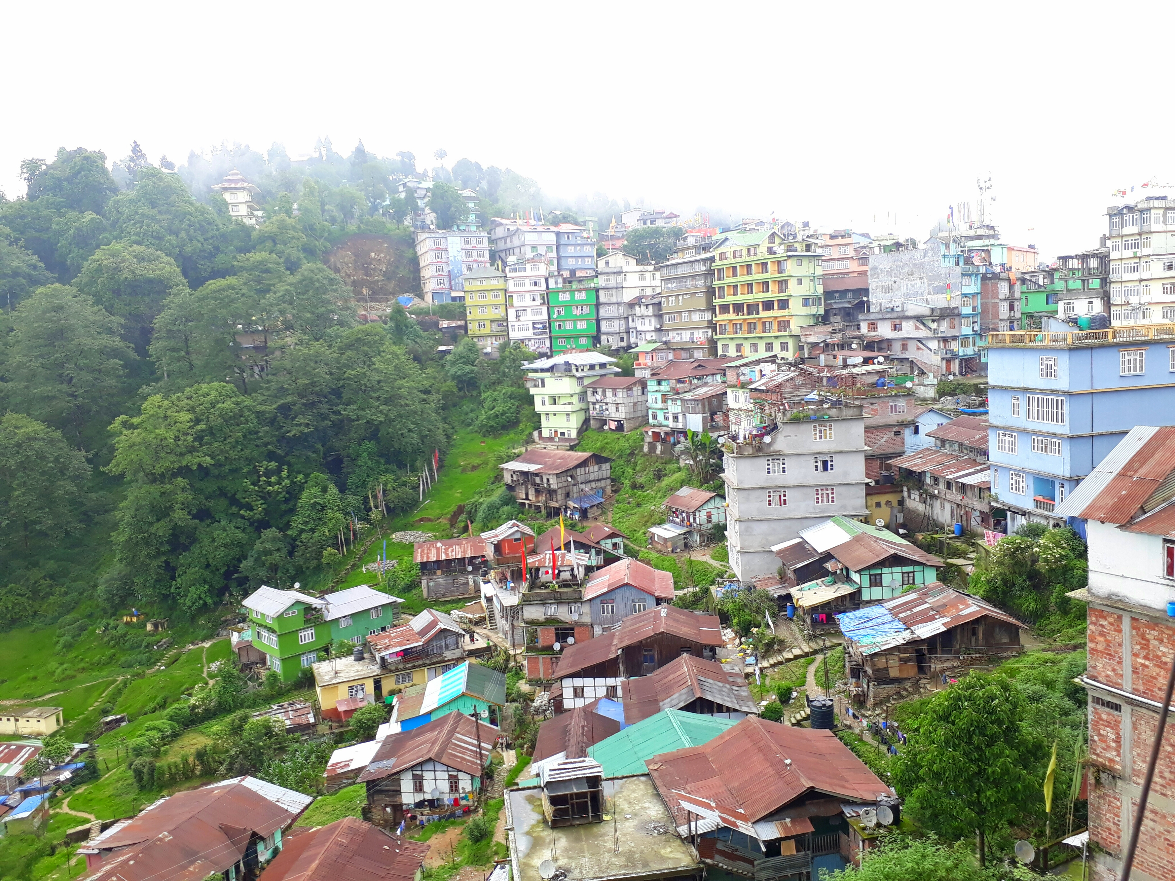 A view of the Ravangla town taken from our hotel